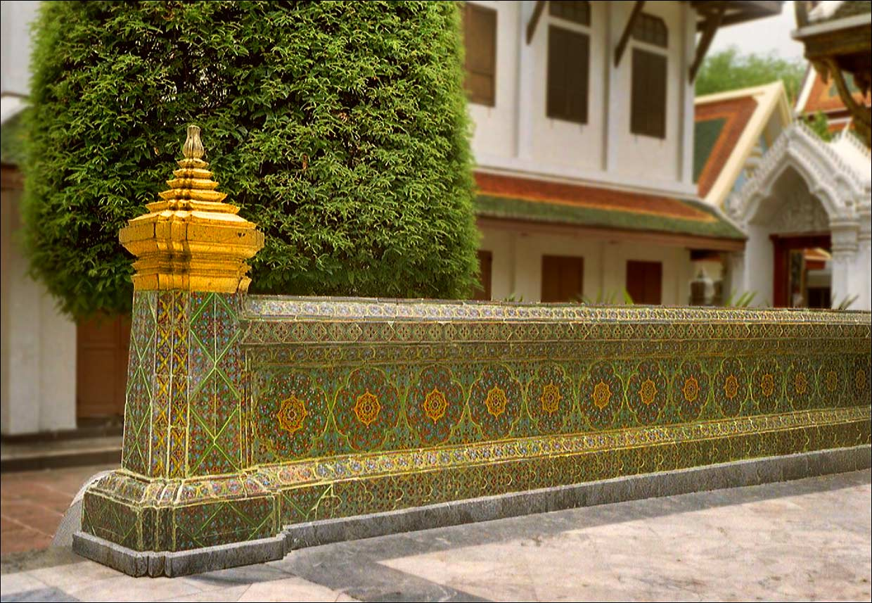 Decorated wall at Wat Ratchabopit (Buddhist temple), Bangkok.